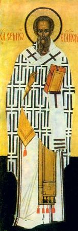 A icon of Simeon of Jerusalem